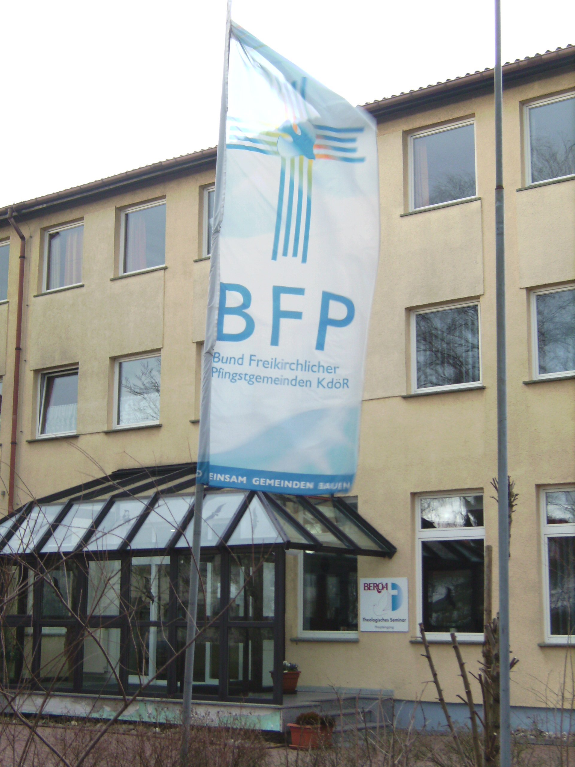 Flag of the Union of Free-Church Pentecostal Congregations (translation correct?) in Germany